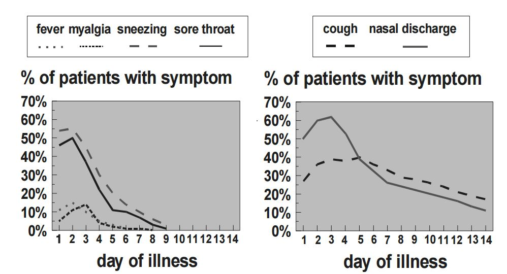 a graphical image and time line for cold symptoms